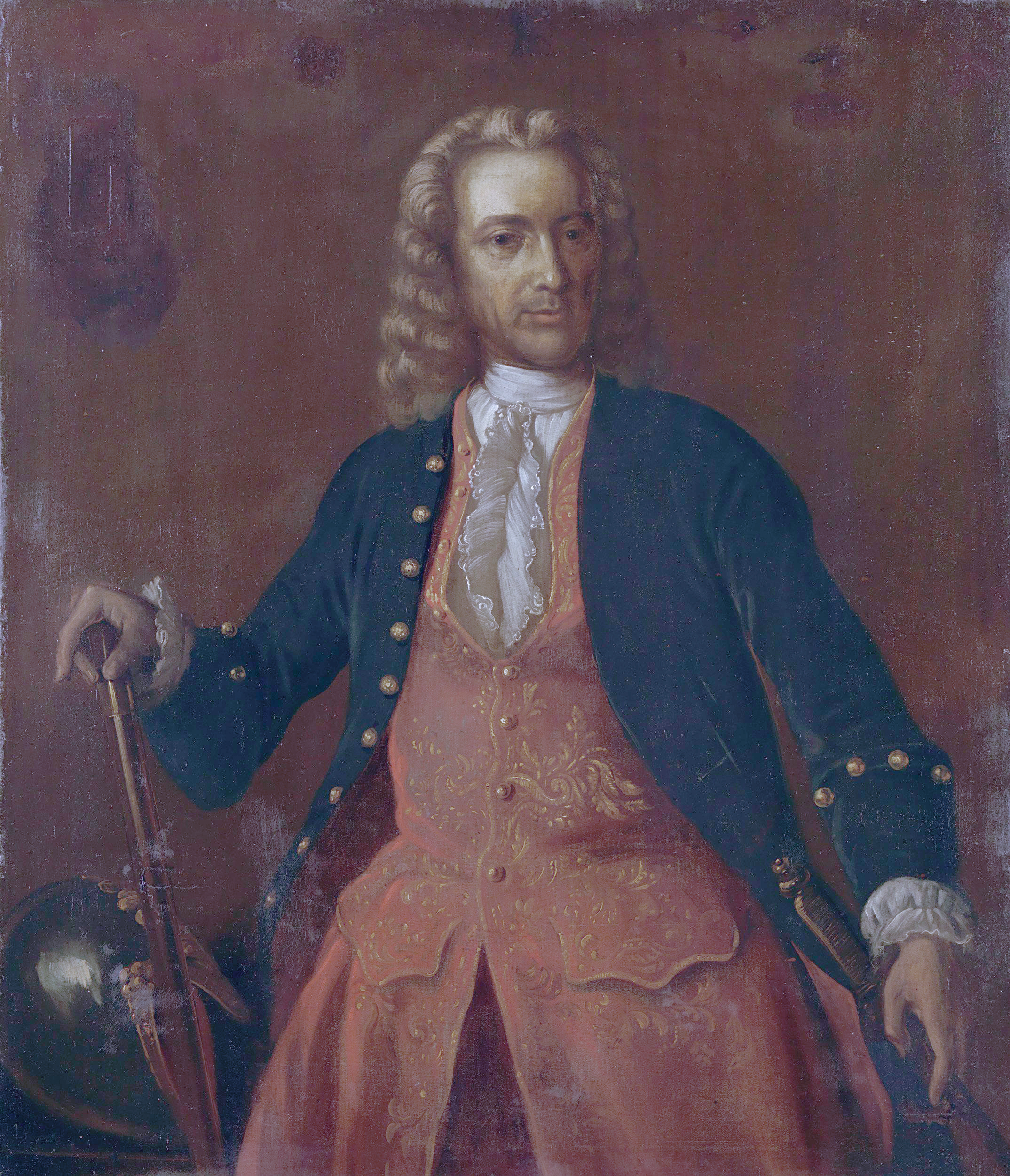 Portrait of Jacob Mossel (1704-1761), Gouverneur-generaal of the Dutch East India Company from 1750 till 1761.